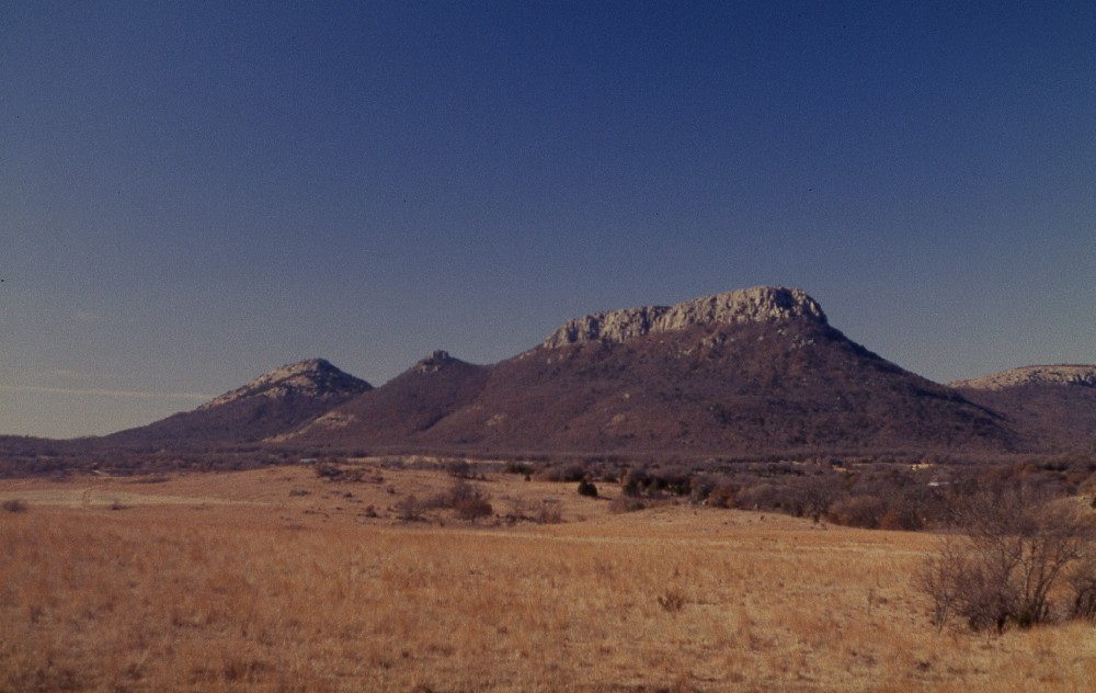 The tree line marks the contact between the Mount Scott Granite and the underlying Mount Sheridan Gabbro